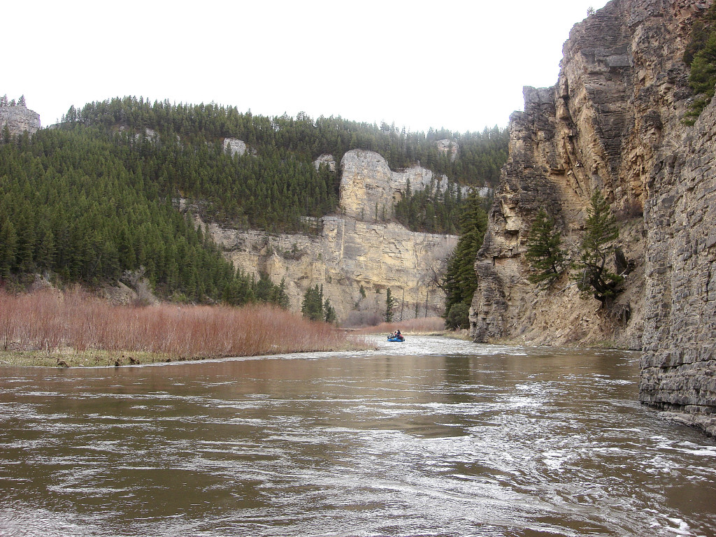 Early season work trip on the Smith River, 2010